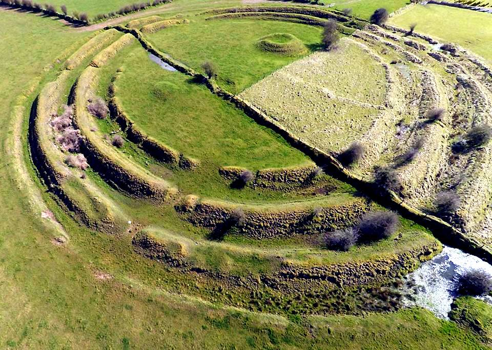 Kite aerial photograph of the Multivallate Ringfort at Rathrá, Co Roscommon, Ireland.